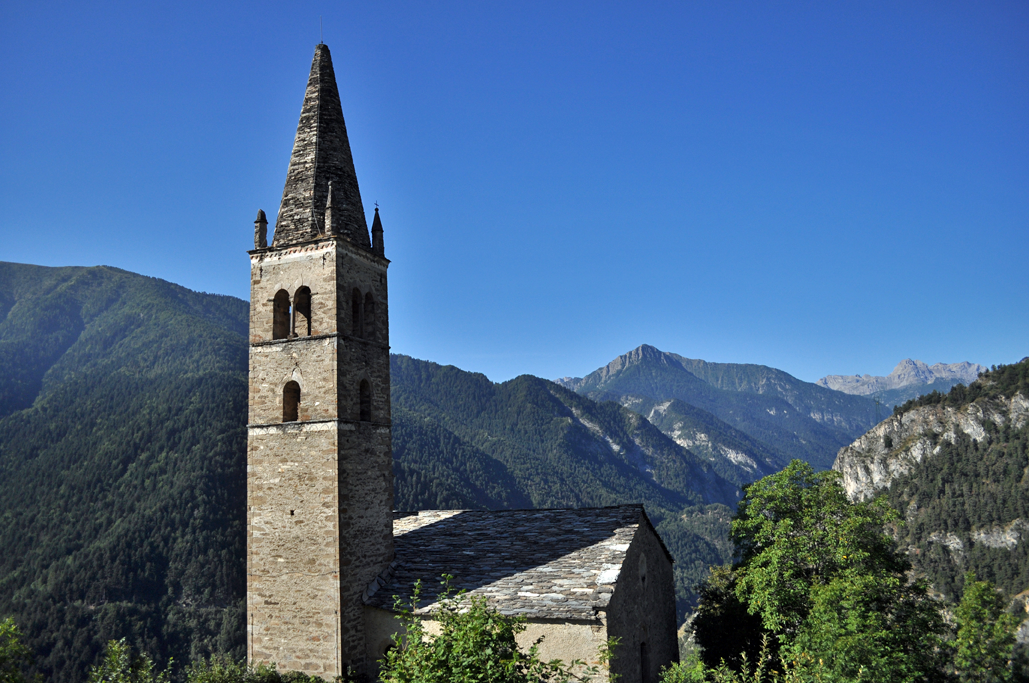 Val Maira in Cuneo Province, Piedmont, Italy